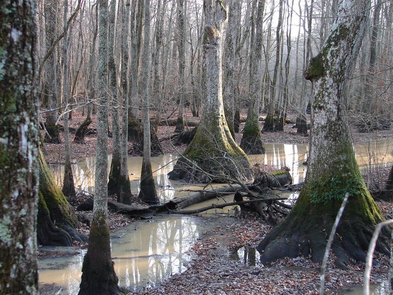 Water Tupelo trees are the dominant species along Bayou de View.